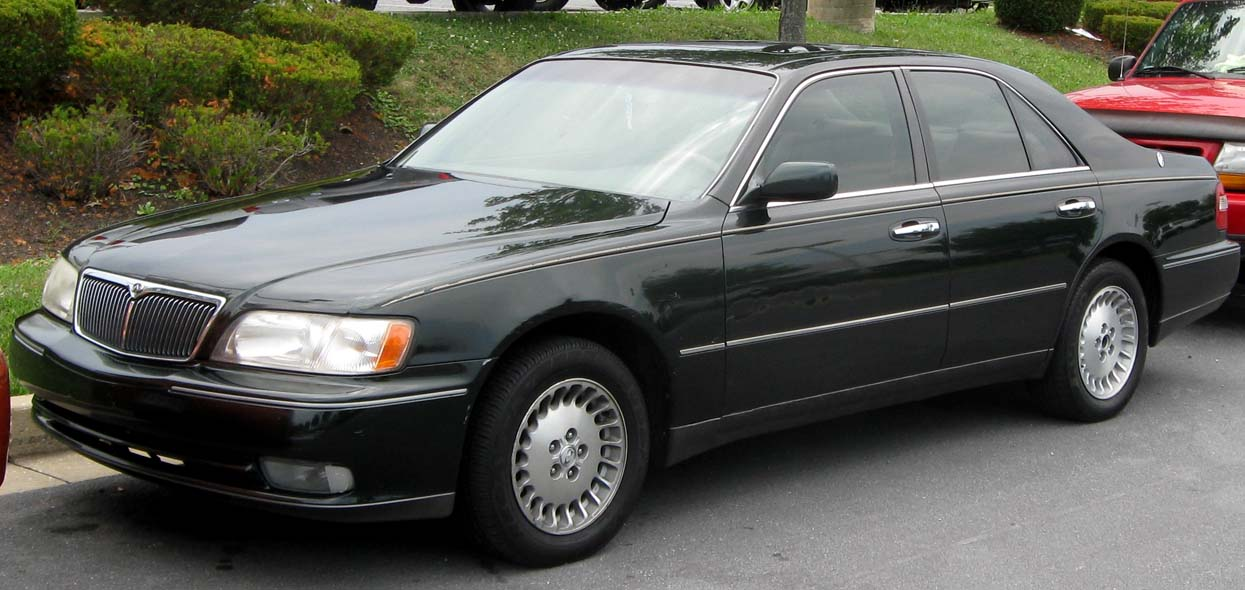 Infiniti Q45 photographed in Clarksville, Maryland, USA.